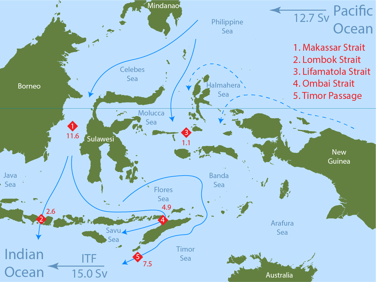 Schematic of ITF transport using INSTANT mooring results of Sprintall et. al., 2009